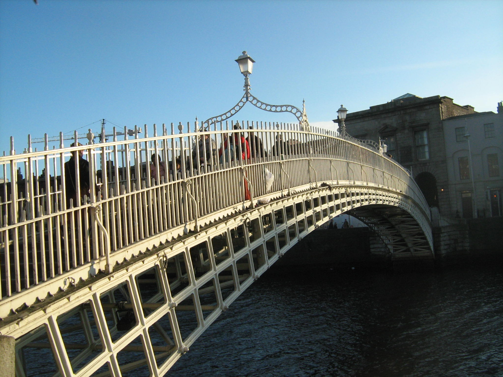 Half Penny Bridge in Dublin